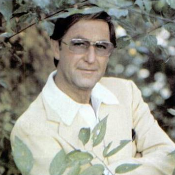 Trade ad for Lenny Dee's single "Rock Your Baby".To better adapt it to his respective Wikipedia article, the ad was cropped and cleaned in a graphics editing program. The original can be viewed at the source below.